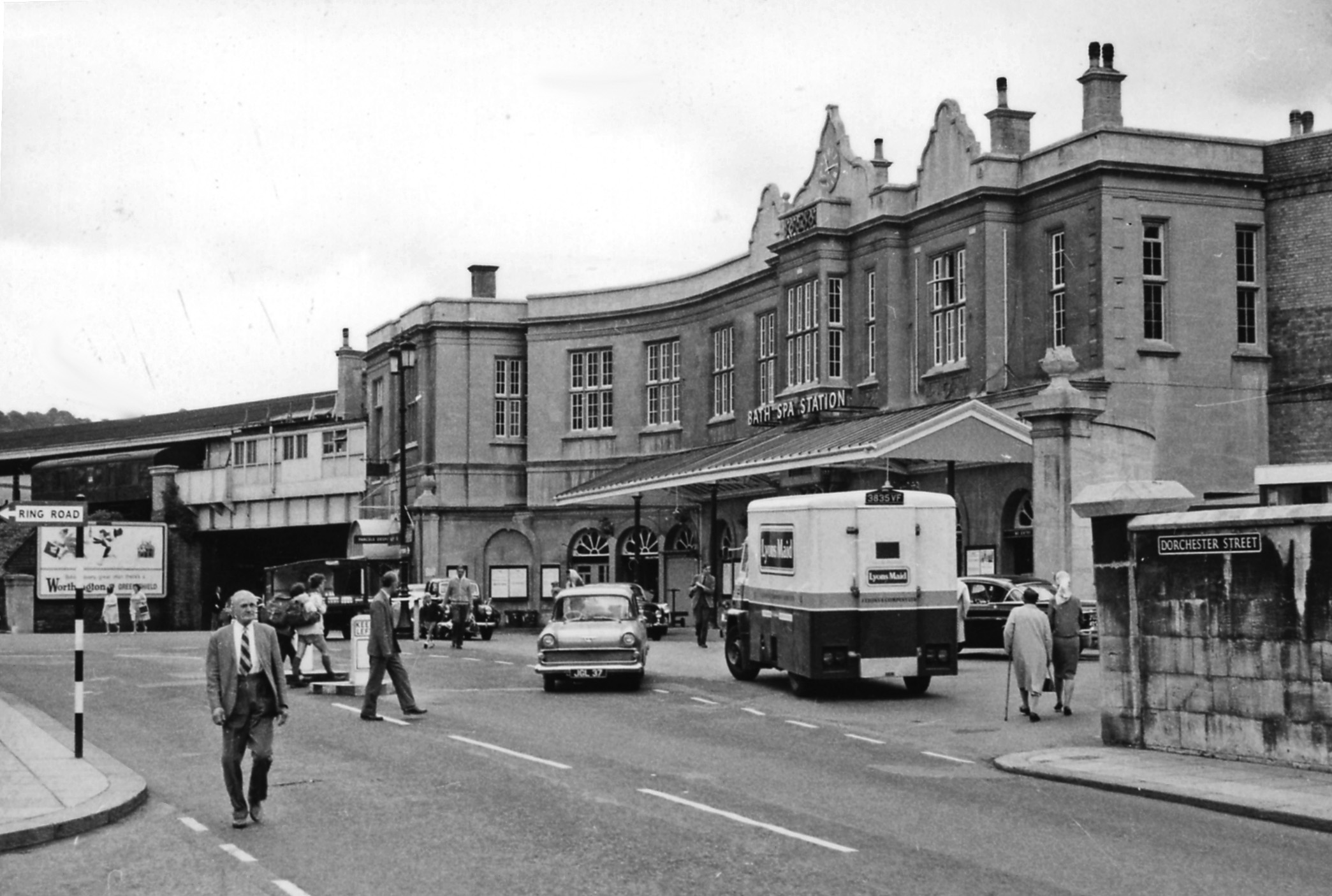 Bath Spa (GWR) Station entrance View eastward on Dorchester Street of the entrance to the surviving main Bath Station, called 'Bath Spa' since 1949. It is the Bath Station of the original Great Western Railway (London - Bristol) of I.K. Brunel.